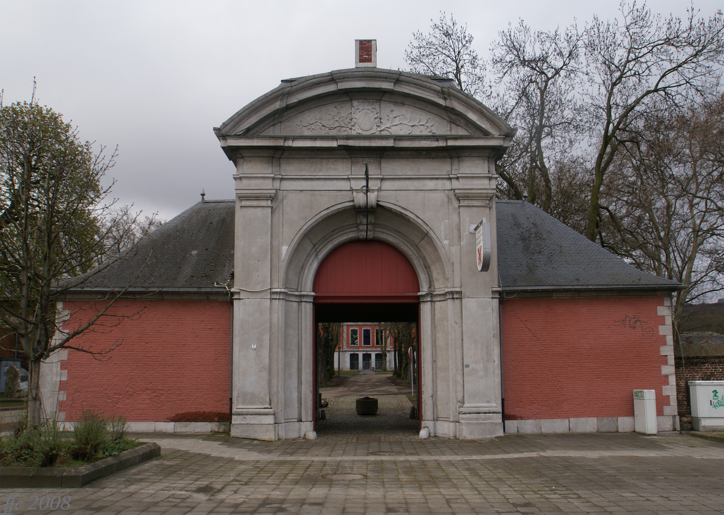 Val-Saint-Lambert (Belgium), gate of the former abbey, turism office of the city of Seraing